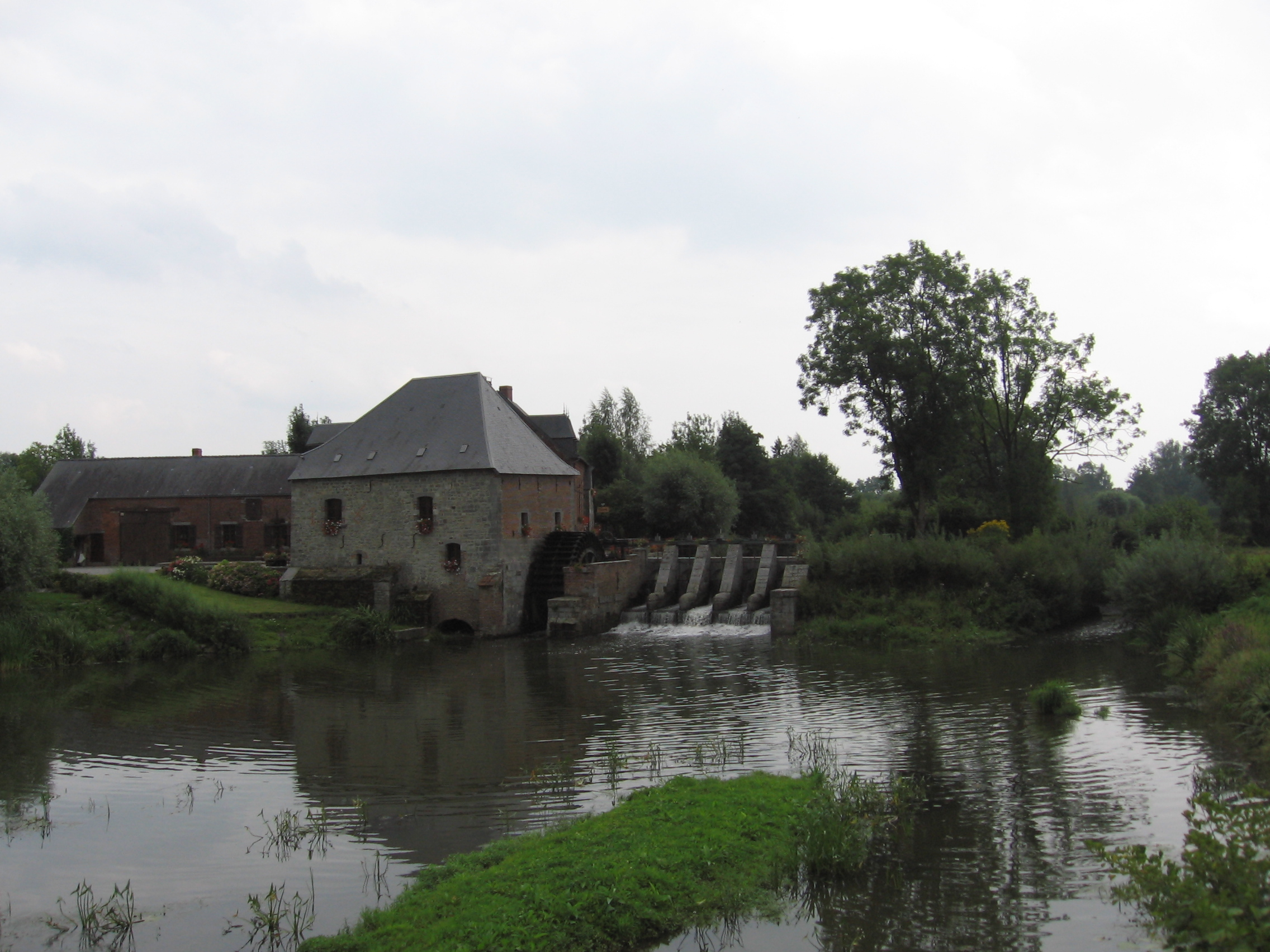 Le moulin à eau de Grand-Fayt dans l'Avesnois This building is indexed in the Base Mérimée, a database of architectural heritage maintained by the French Ministry of Culture, under the references PA59000110 and type .